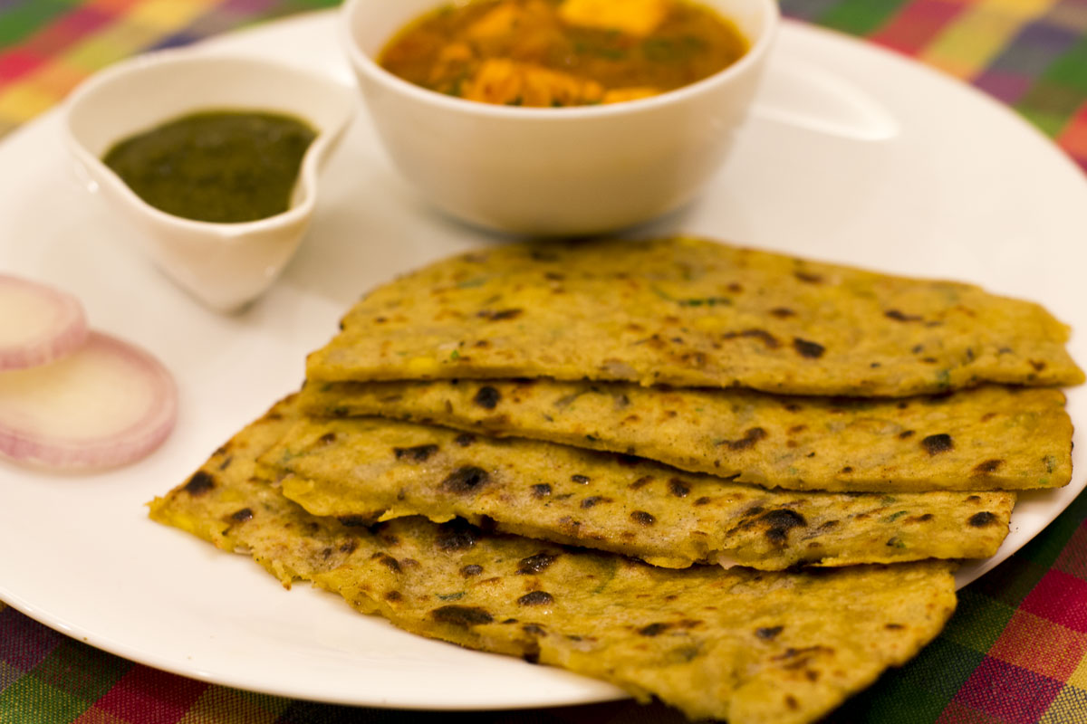 Daal Chapati recipe